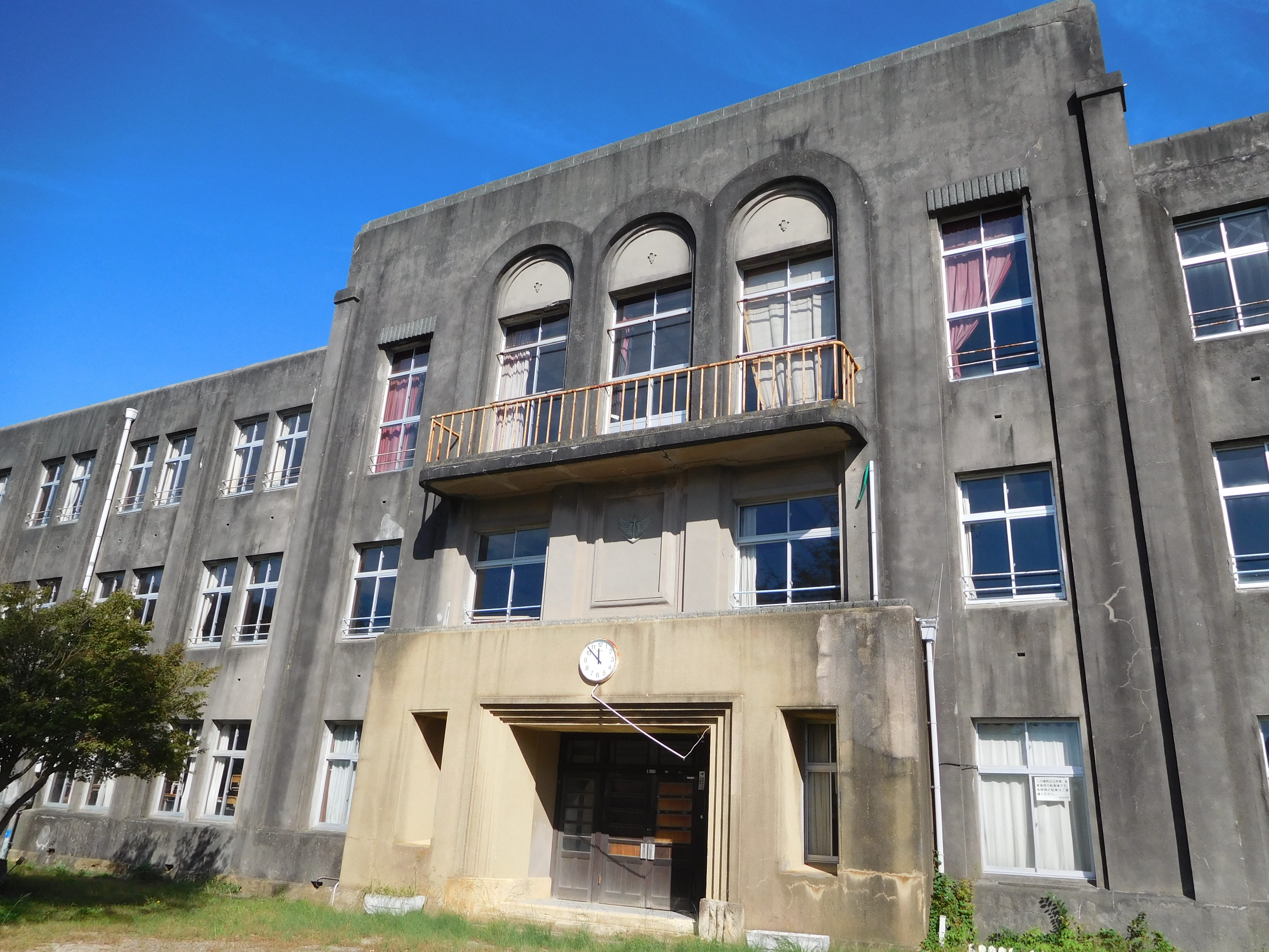 This is the Former Toba Elementary School Building in Toba, Mie, Japan.